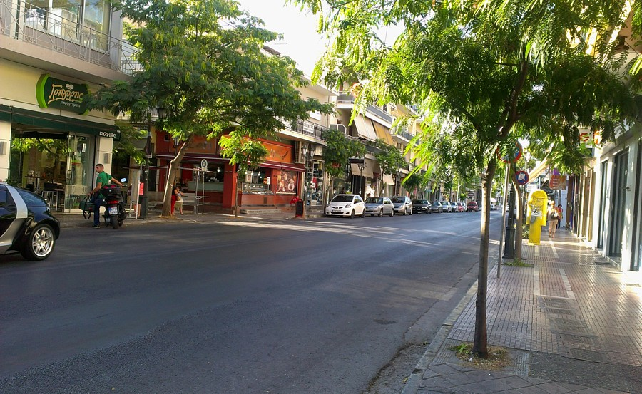 anargyroi